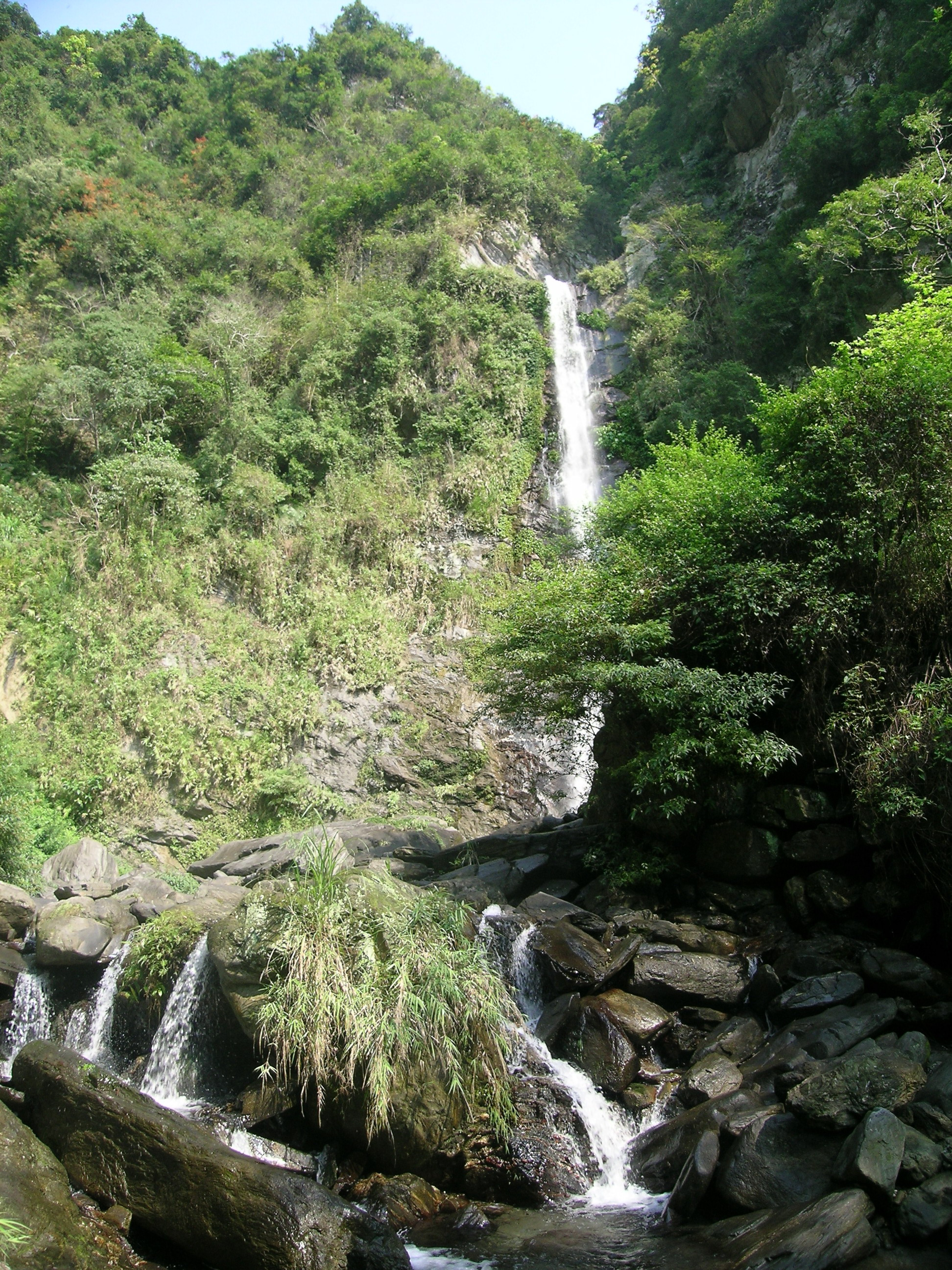 The Nanan Waterfall situates roughly 2 kilometers away from the Nanan Visitors Center, although not within the boundary of Yushan National Park, it is however, a sight through which every visitor must pass before taking the Walami hiking trail. Conveniently located nearby highways, the water-abundant Nanan Waterfall is a highly accessible water area, suited for family picnics and excursions, especially during summer time amid the burning heat wave, visitors can easily feel refreshingly cool by just standing beneath it.